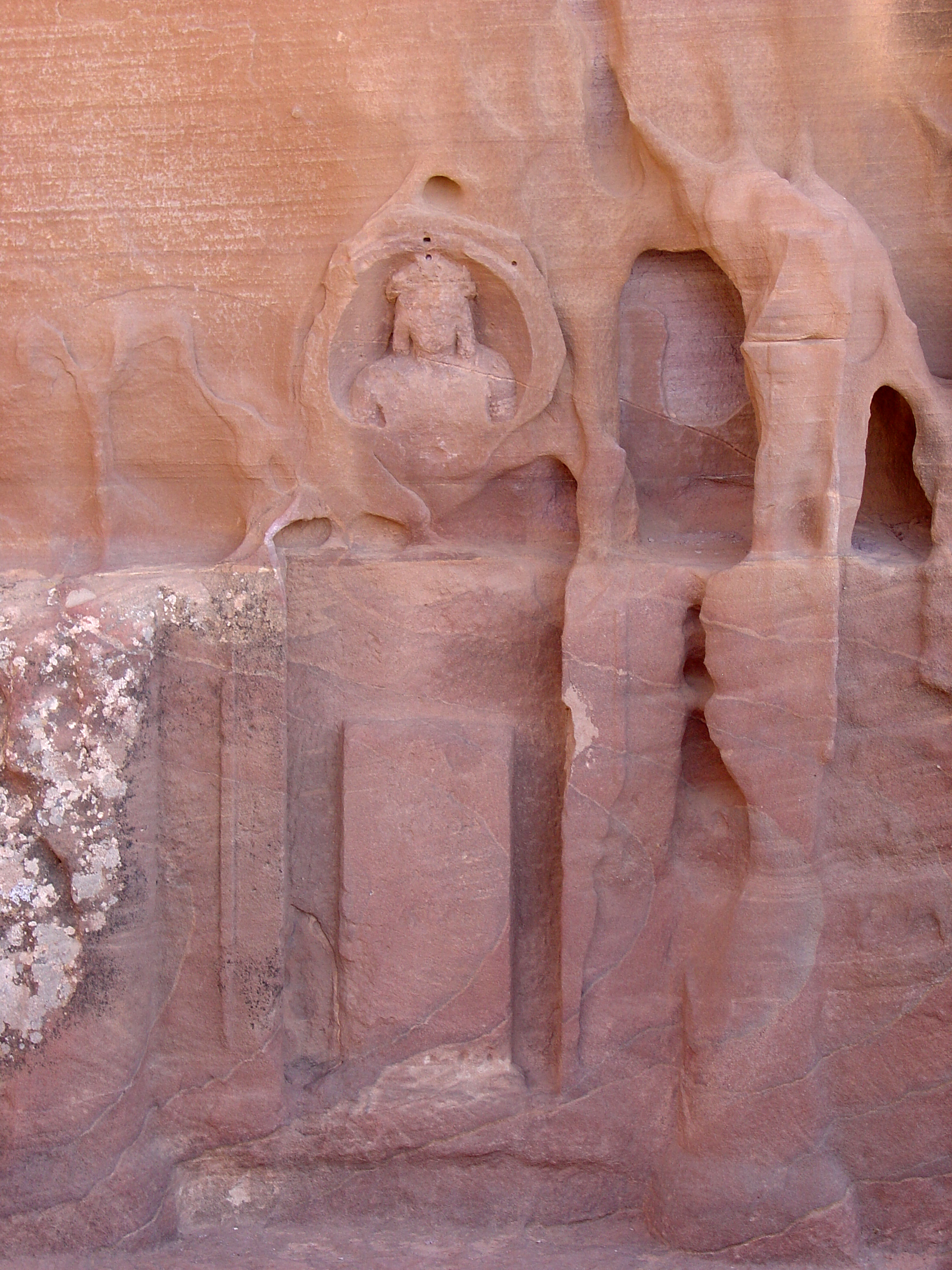 This relief of Dushara, chief god of the Nabataeans, is located under an overhang on the way to the High Place of Jabal al-Madbah